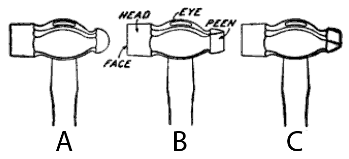 Various peen hammers. Key: A. Ball-peen hammer B. Straight-peen hammer C. Cross-peen hammer